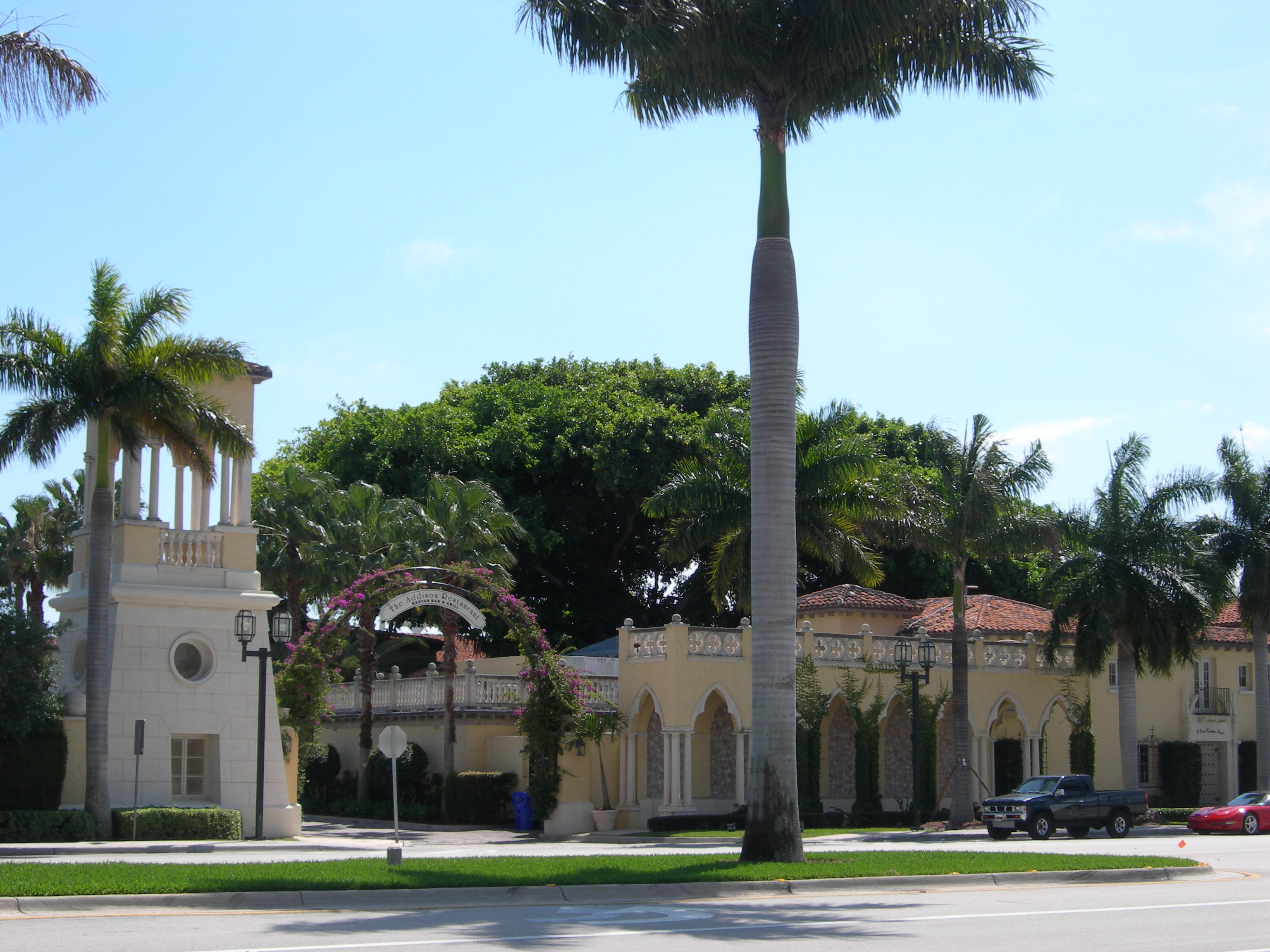 Mizner's Boca Raton administrative buildings, now site of restaurant/bar/event venue/offices, listed on the National Register of Historic Places.